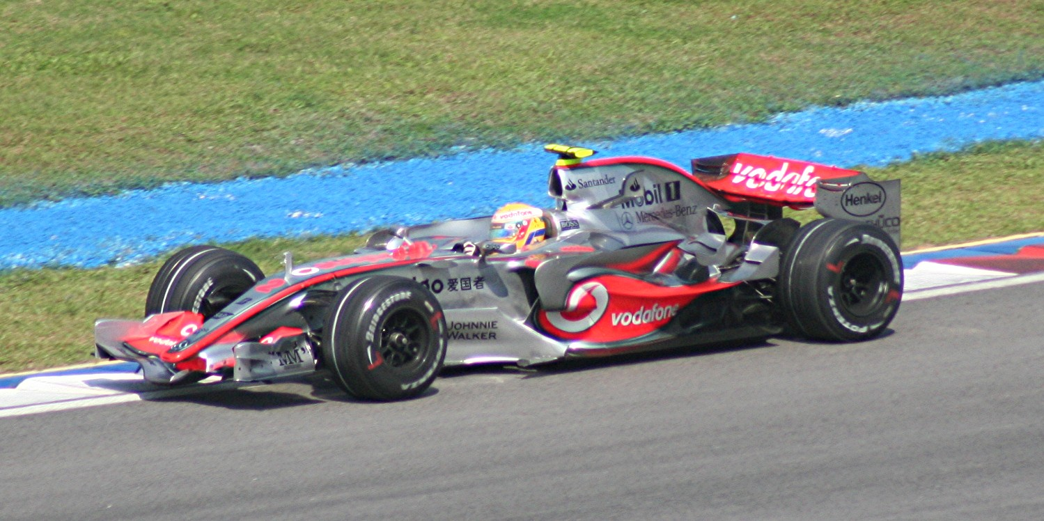 Lewis Hamilton driving for McLaren in the 2007 Malaysian Grand Prix.